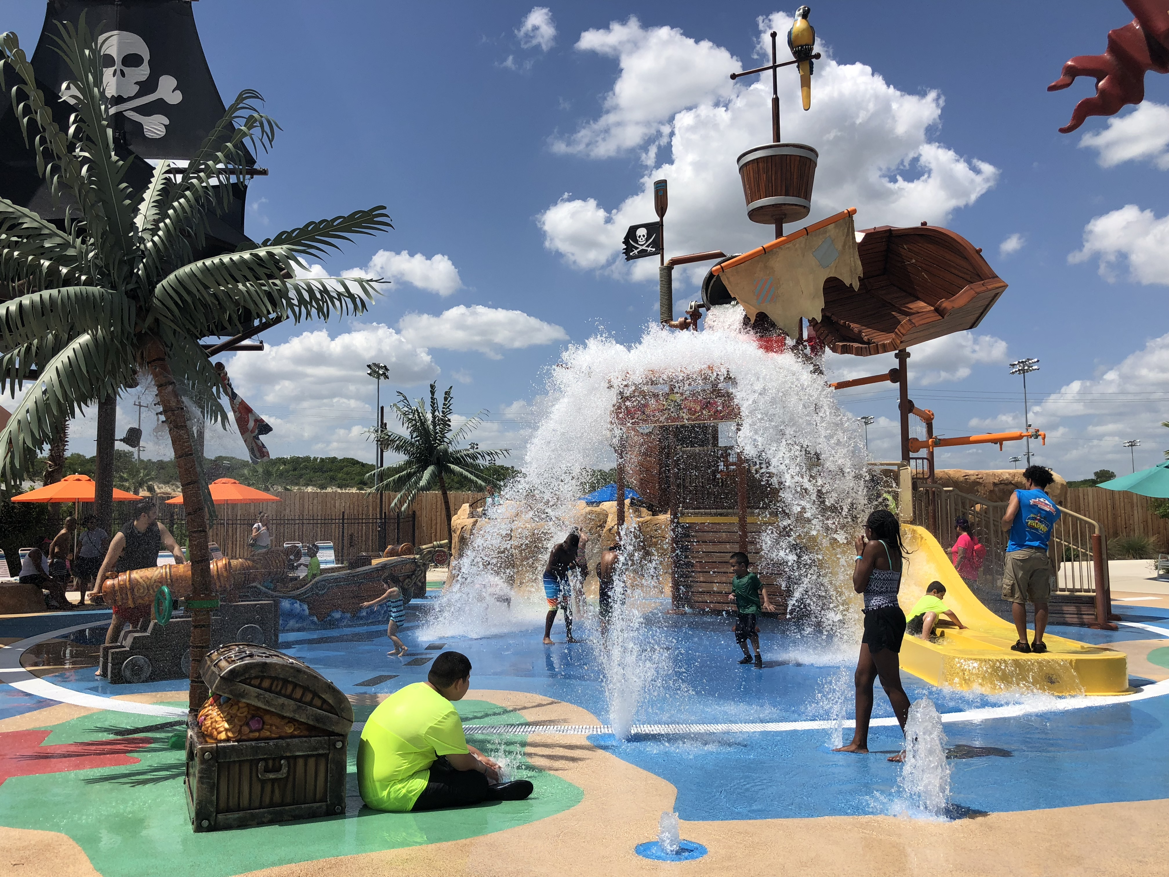 Shipwreck Island at Morgan's Inspiration Island - Summer 2018